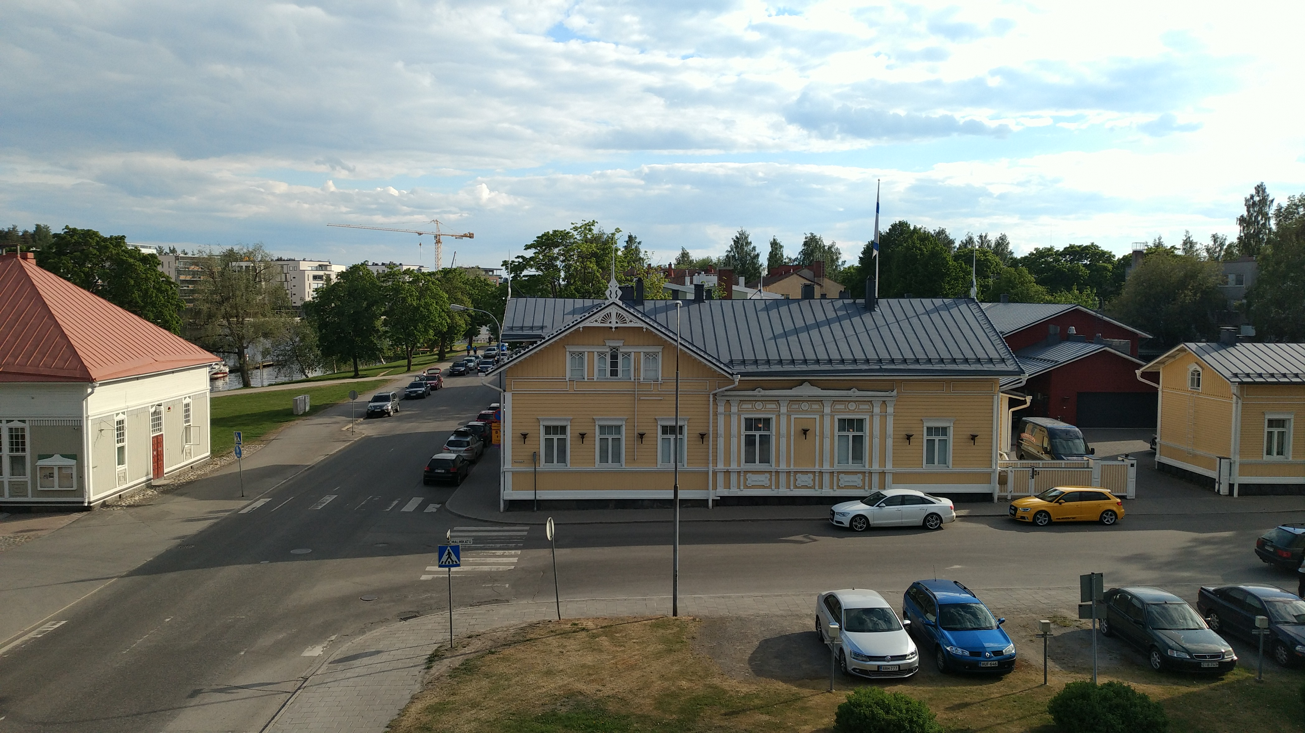 The so called Olsoni's house at Rantakatu 5 in Joensuu, Finland.